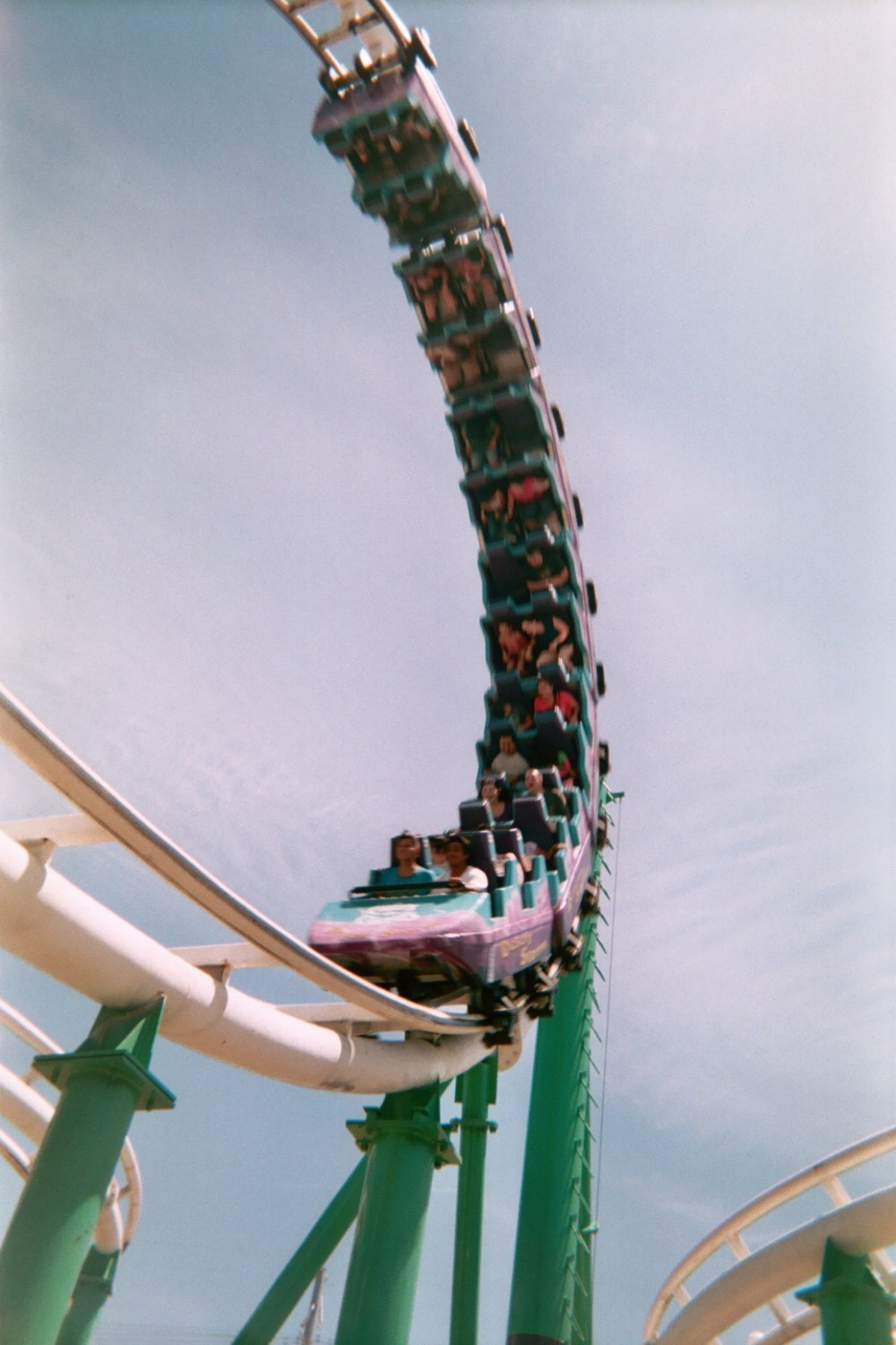 Really? Castles 'n Coasters is a pretty boring place, yet I found several pictures on this camera glorifying this place like Disneyland.